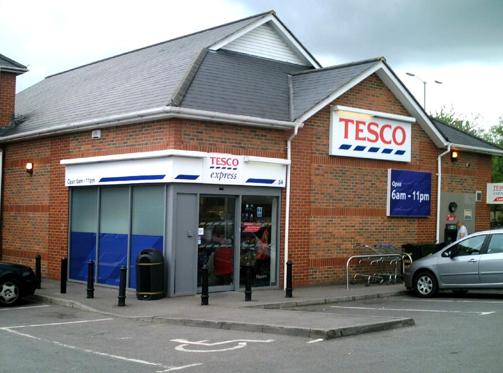 Tesco Express local store in Trowbridge, Wiltshire, UK